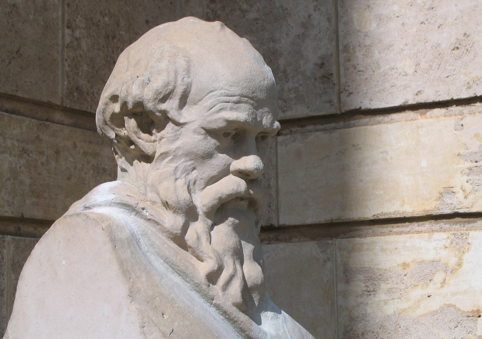 Cropped image of a Socrates bust for use in philosophy-related templates etc. Bust carved by by Victor Wager from a model by Paul Montford, University of Western Australia, Crawley, Western Australia.